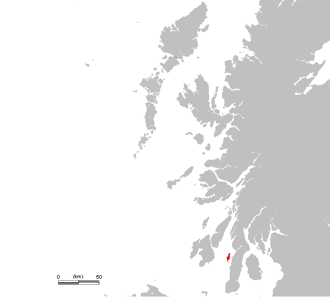 UK Gigha.PNG (Scotland, Hebrides)